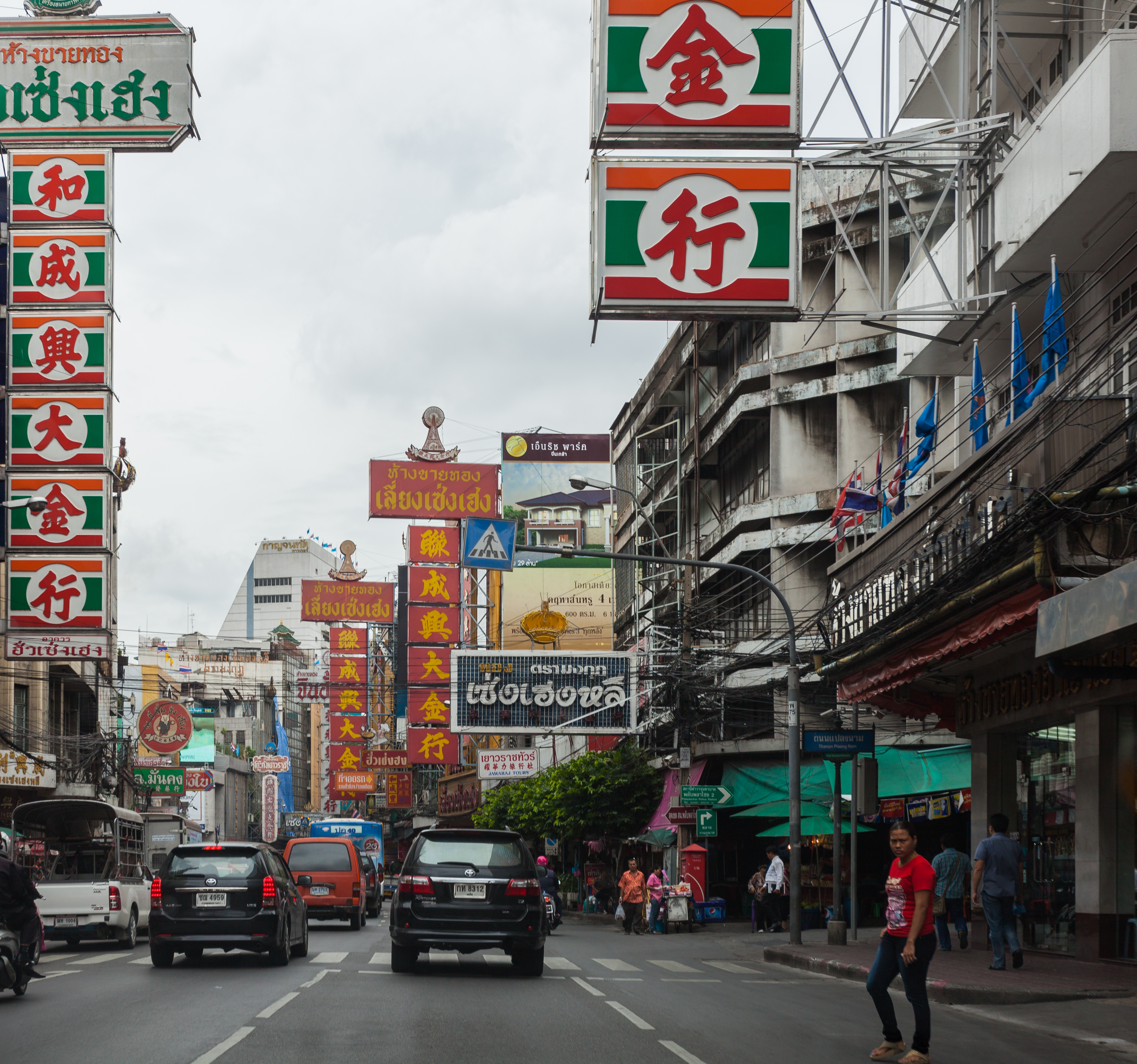 China Town, Bangkok, Thailand